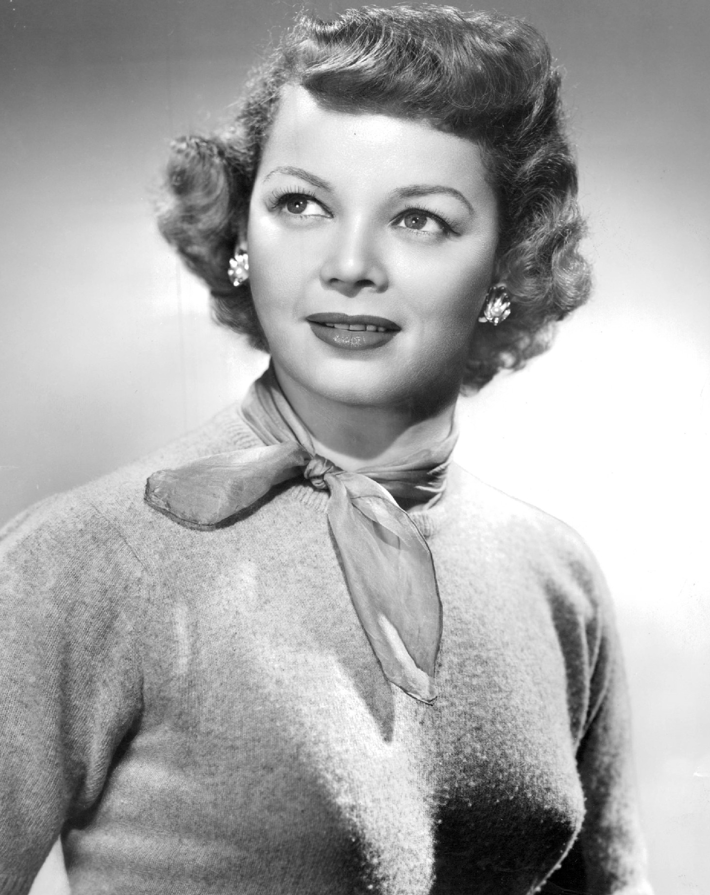 Photo of vocalist June Hutton.